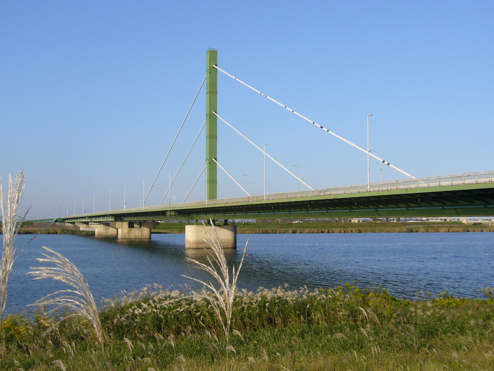 Suigo Bridge in Katori City, Chiba Prefecture, Japan